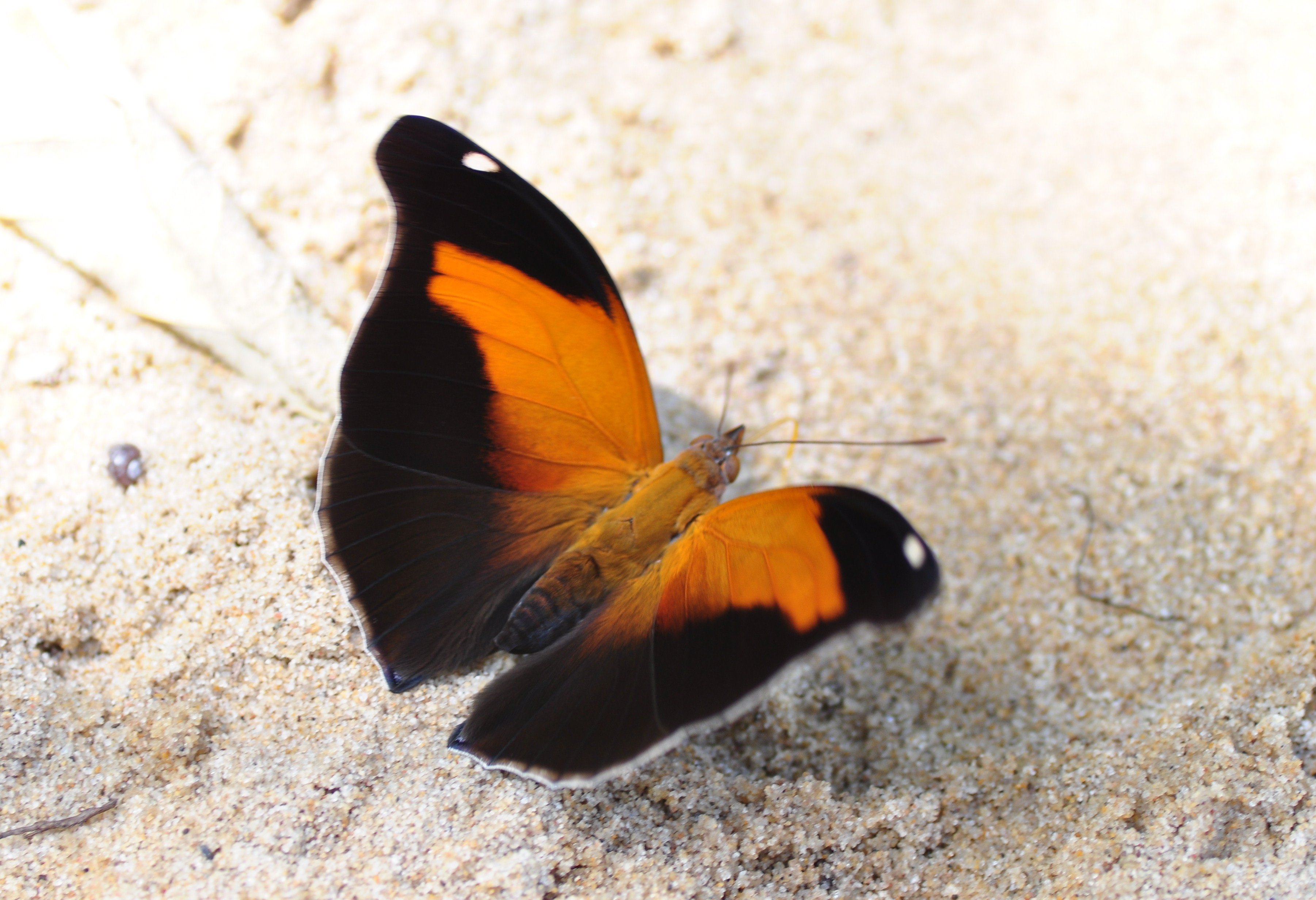 Orion Cecropian (Historis odius)